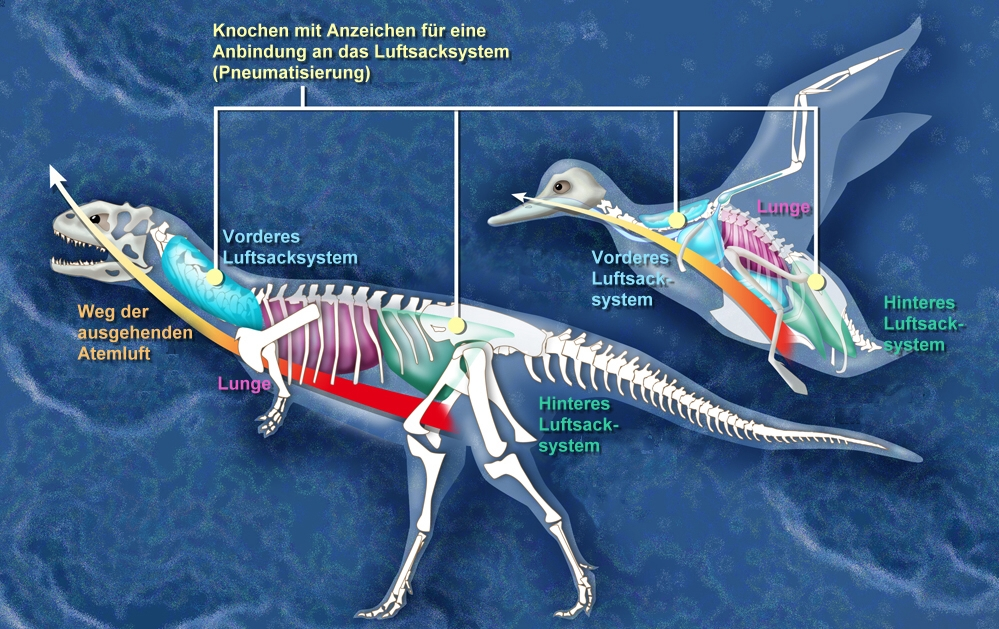 Comparison of the air sac system of birds and dinosaurs